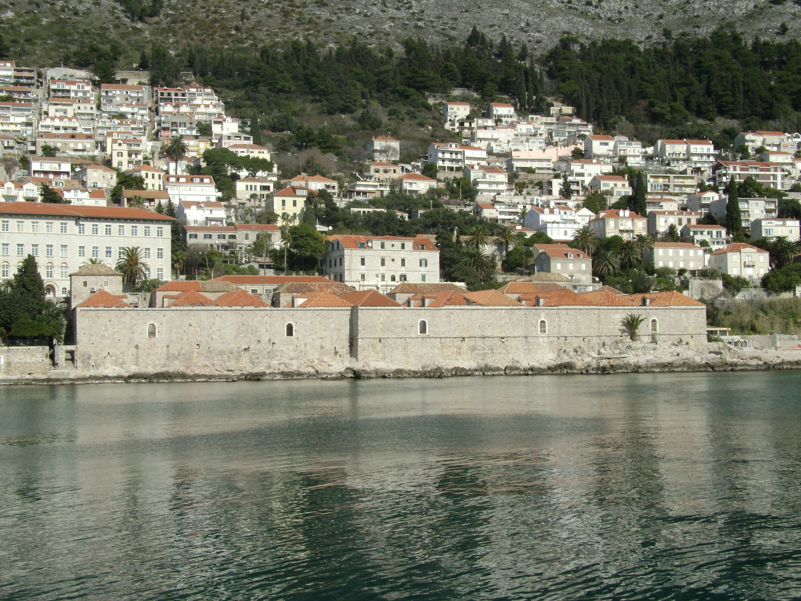 Dubrovnik, old town, monuments Lazareti